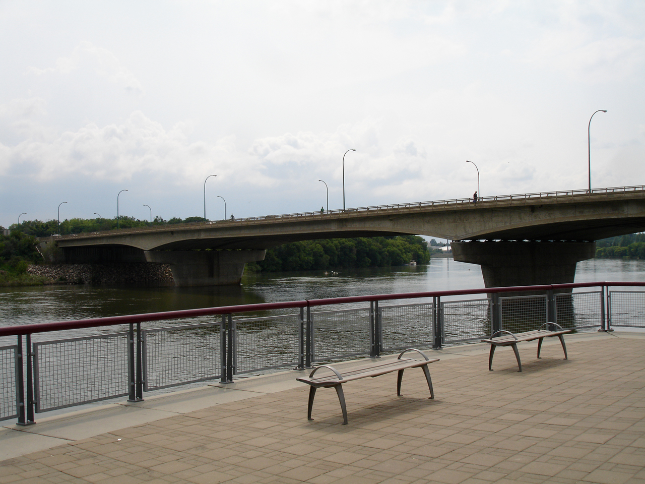 The Senator Sid Buckwold Bridge (formerly Idylwyld Bridge) in Saskatoon, Saskatchewan, Canada.